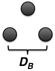 Three-conductor bundle with equal spacing